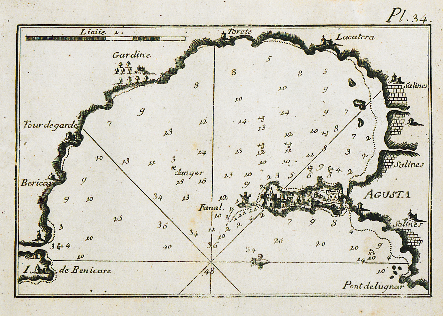 Recueil des principaux plans, des ports, et rades de la Méditerranée, chez Yves Gravier Libraire sous la Loge de Banchi, 1804